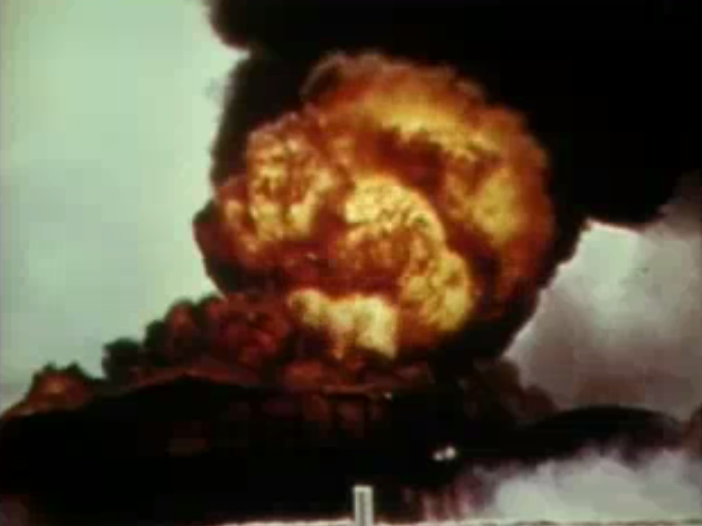 A burning oil tank after the Japanese attack on Sand Island, Midway Atoll, on 4 June 1942.